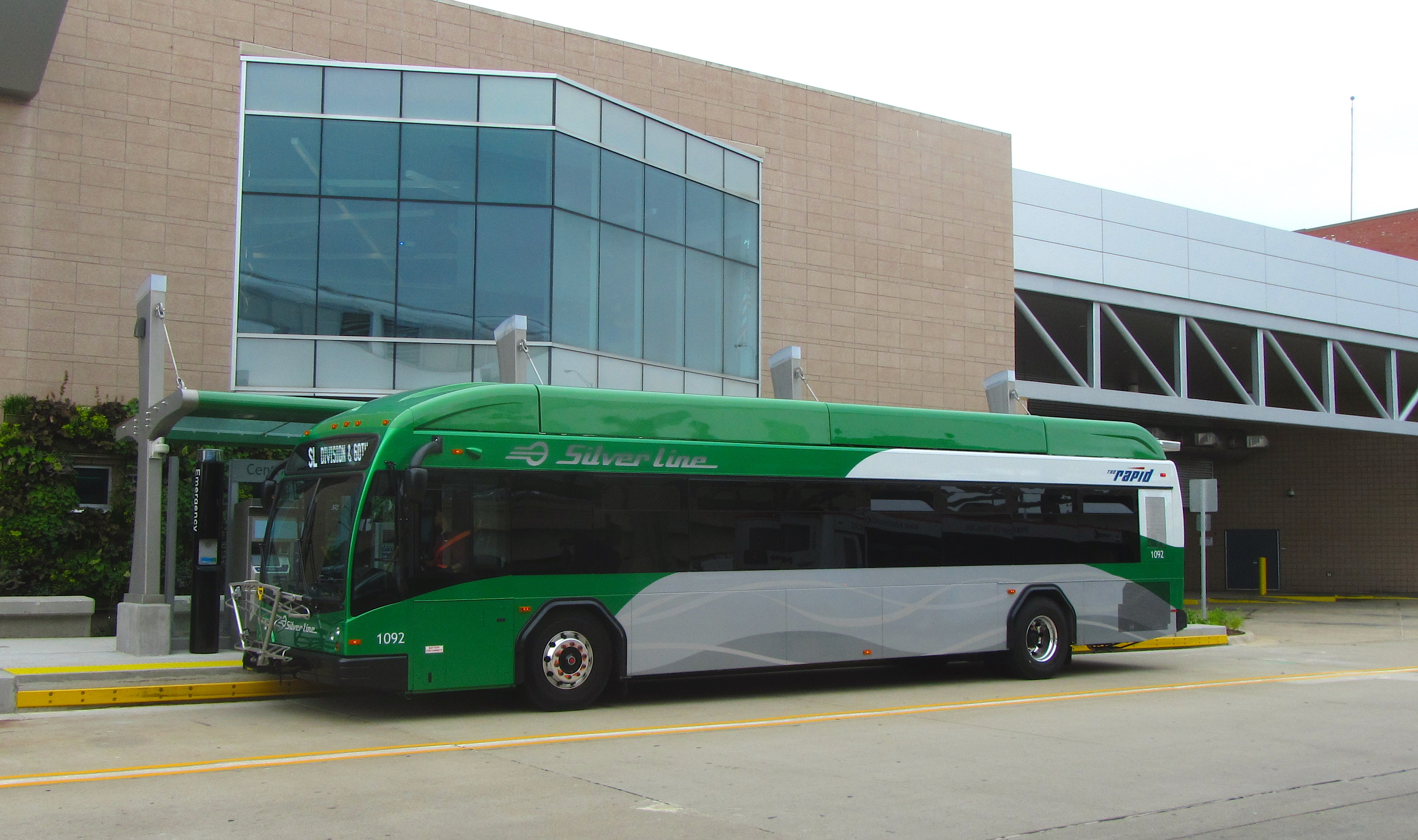 Rapid SilverLine BRT bus at the Rapid Central Station.